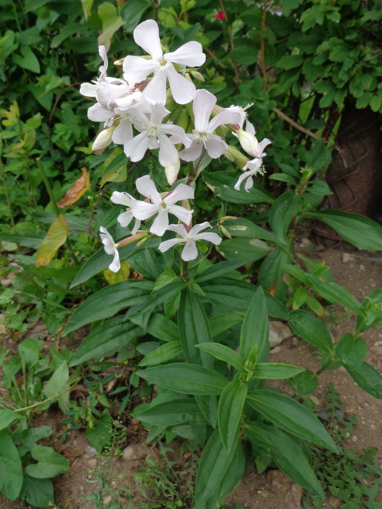 Saponaria officinalis. Found in Rīga town, Latvia